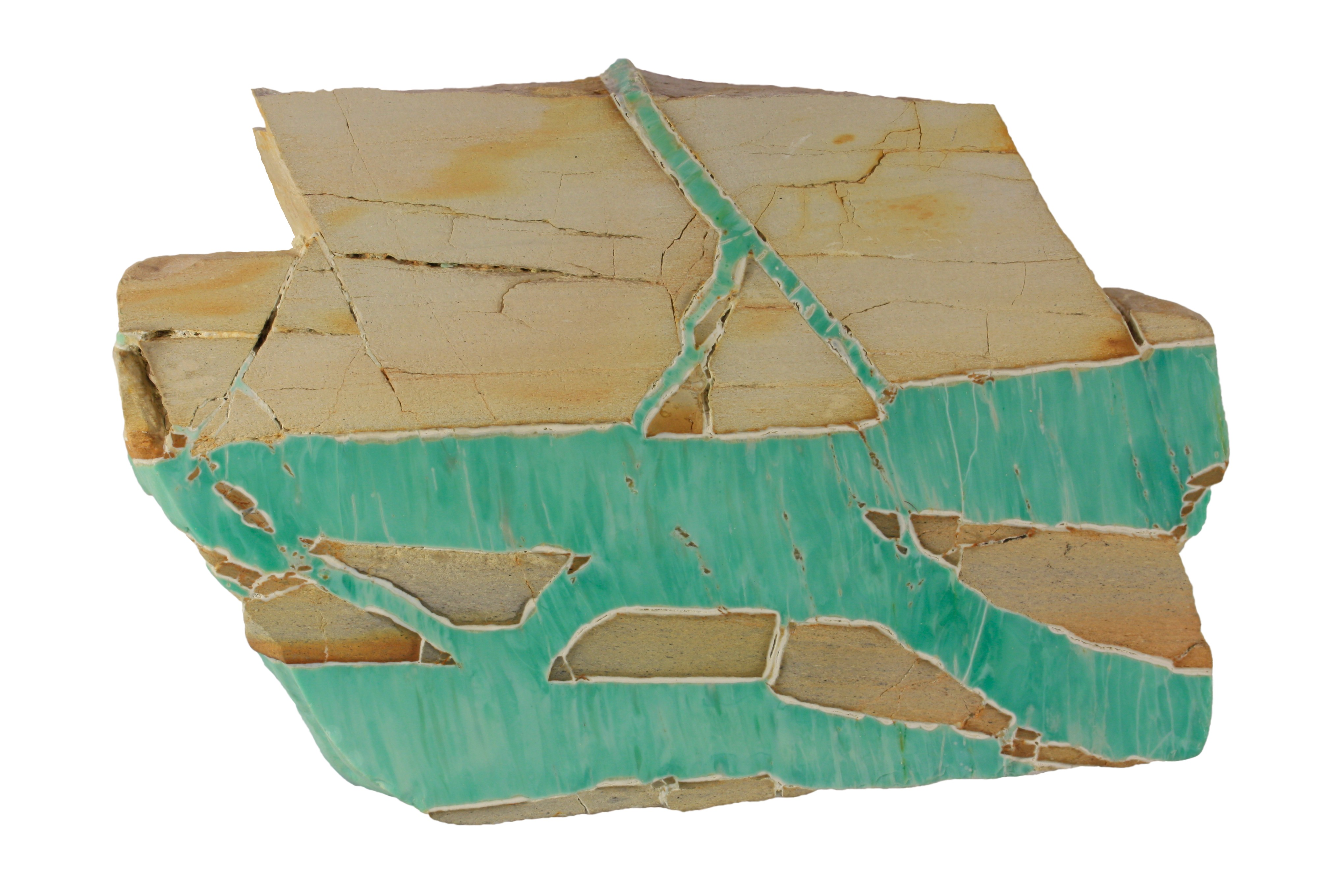 Semi-precious phosphate mineral variscite filling the cracks in siltstone. The sample is from Queensland, Australia. Variscite is often mistaken for another better known phosphate mineral turquoise. The width of the view is 11 cm. Additional information from the source: [2]